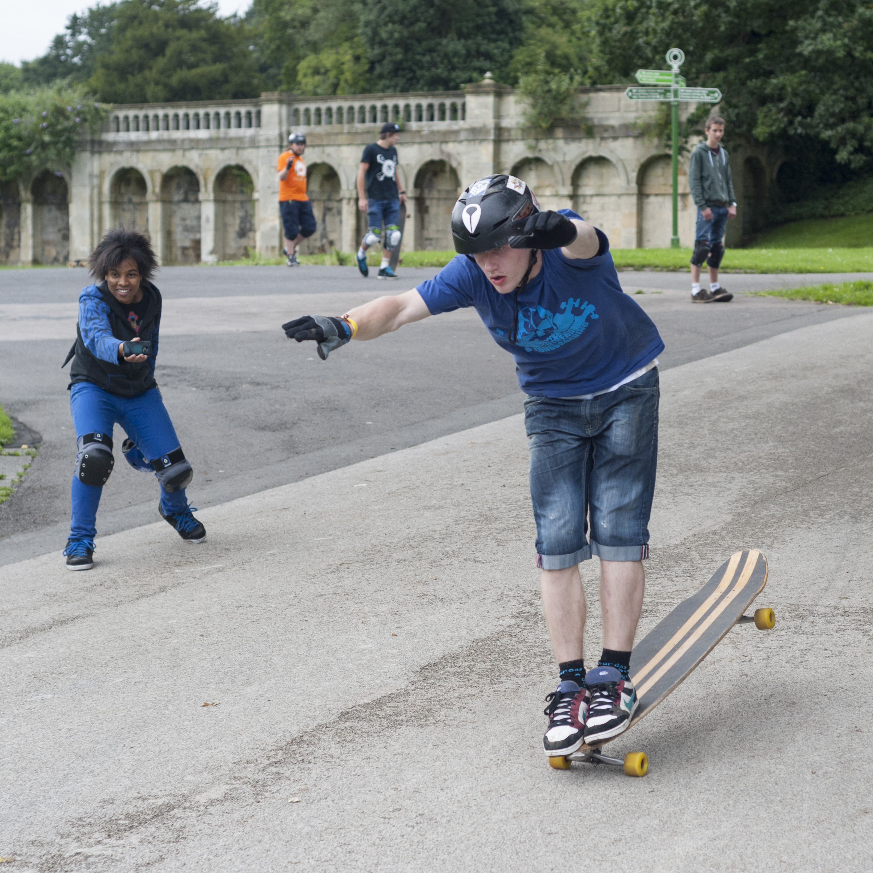 Nose ollie trick on a Lush Kisiwa longboard, in Crystal Palace Park, London, July 2012